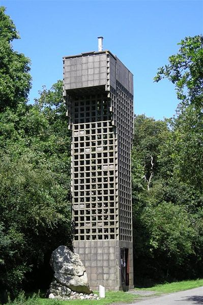 Airtower in Oudemirdum, The Netherlands.